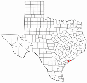 Location of Matagorda Bay, Texas